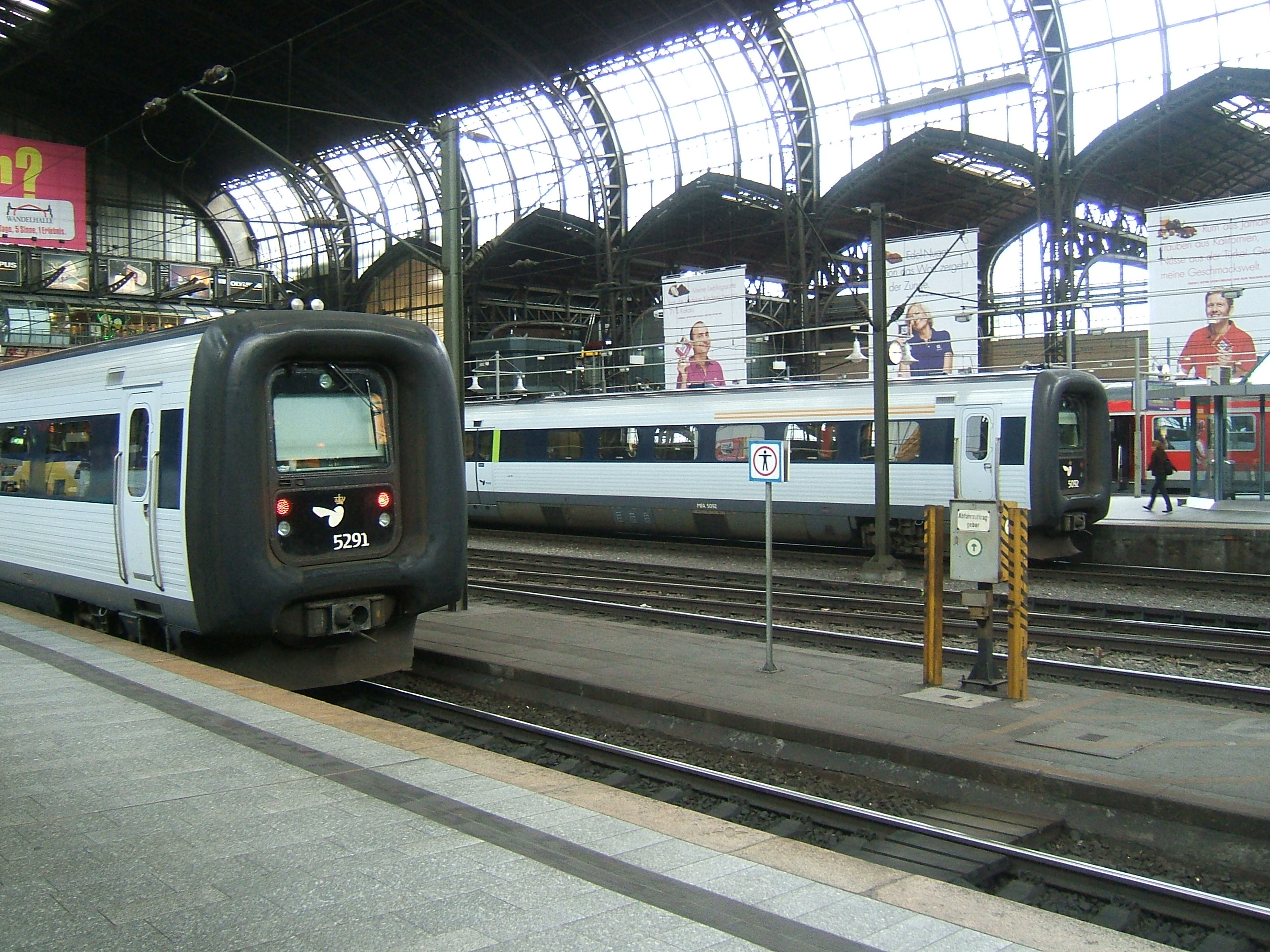 Danish noses in Hamburg Hbf